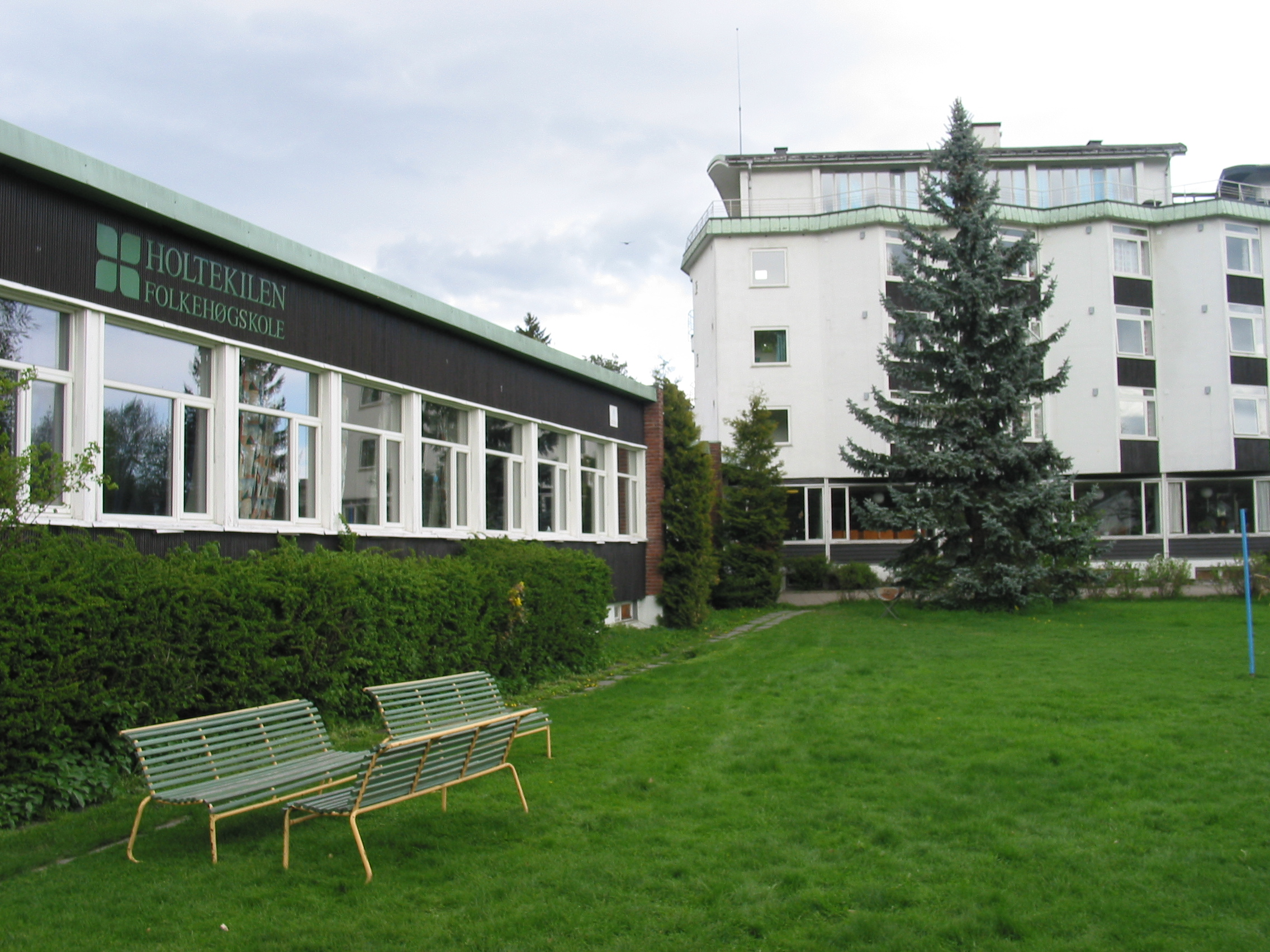 The folk high school at Holtet, Strand, Bærum, Akershus, Norway.